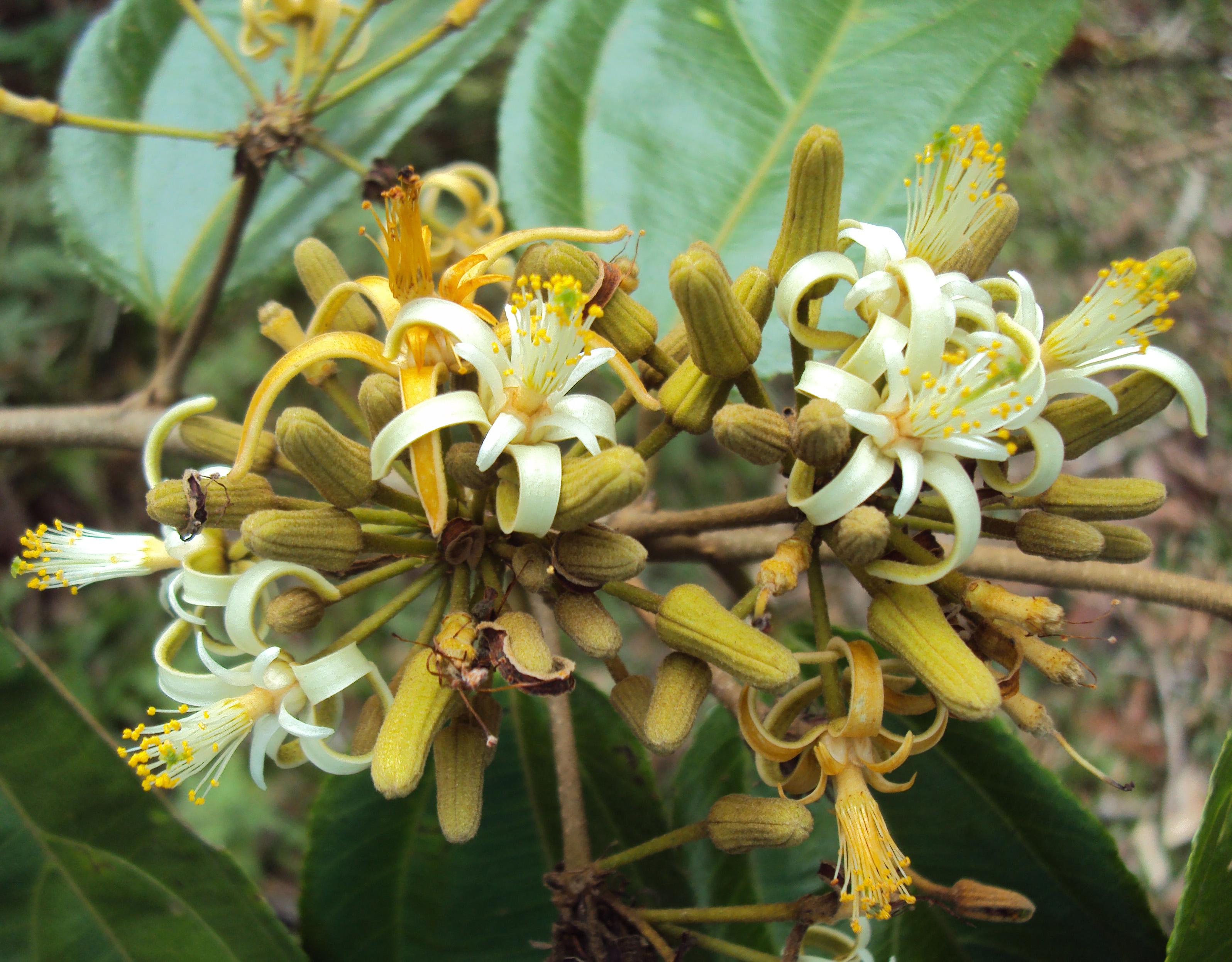 Grewia umbellata